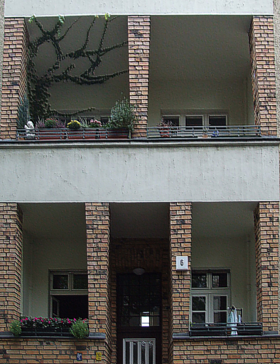 Interesting balcony at Rothenburg street 6 at Berin-Steglitz